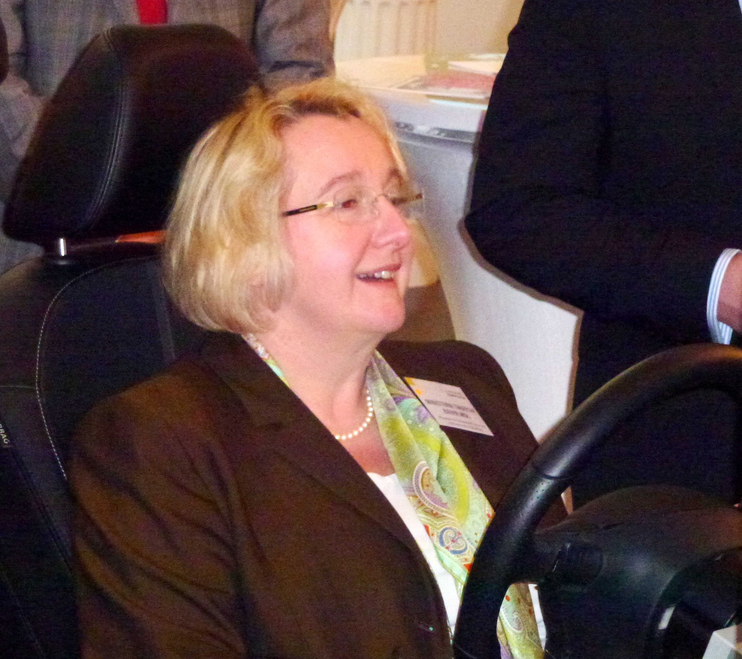 Minister for Education of Baden-Württemberg, Germany